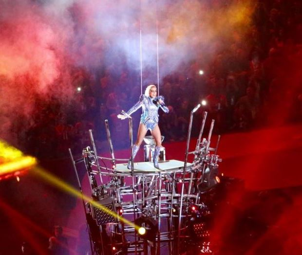 Lady Gaga performs "Poker Face" during the Super Bowl LI halftime show.